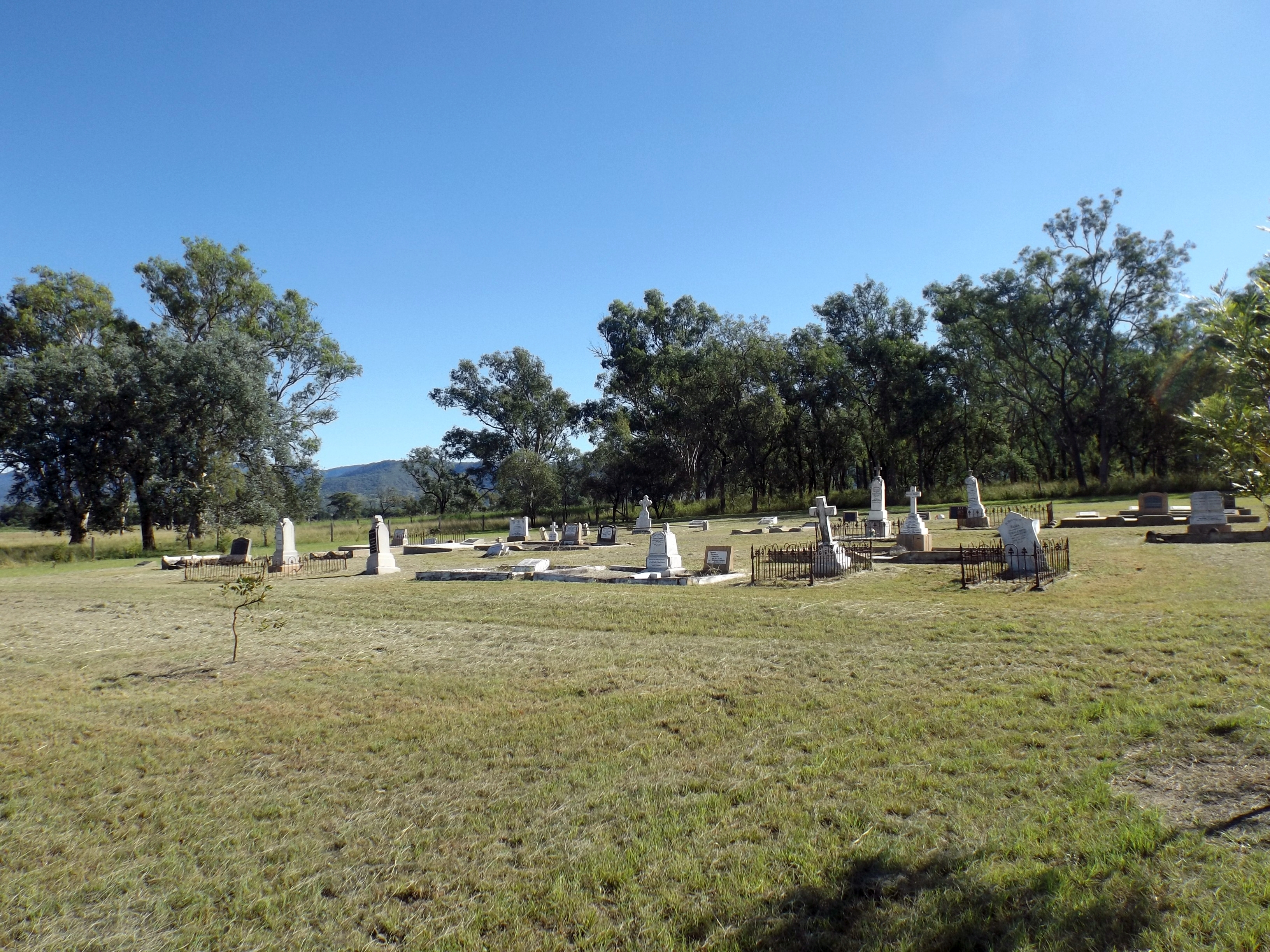 St Patricks Catholic Church gravestones at Rosevale, Scenic Rim Region, Queensland, Australia.